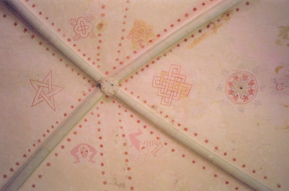 Symbols/ornaments on the ceiling of Karia Church, Northern Estonia: Pentagram, square interlacing pattern, 8-pointed star, triskelion, etc.